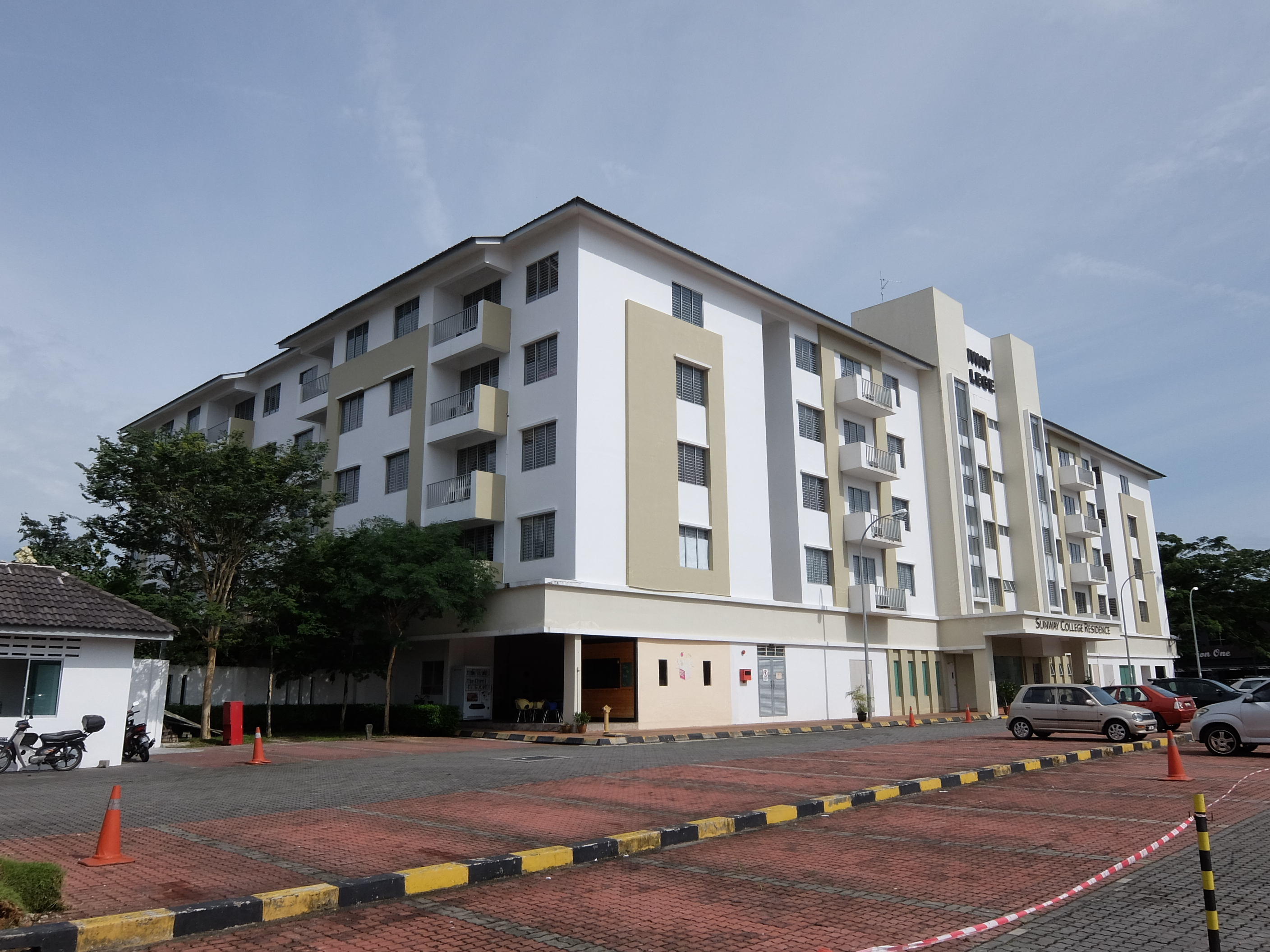 Sunway College Residence, Sunway College Johor Bahru, Taman Mount Austin, Johor Bahru, Johor, Malaysia